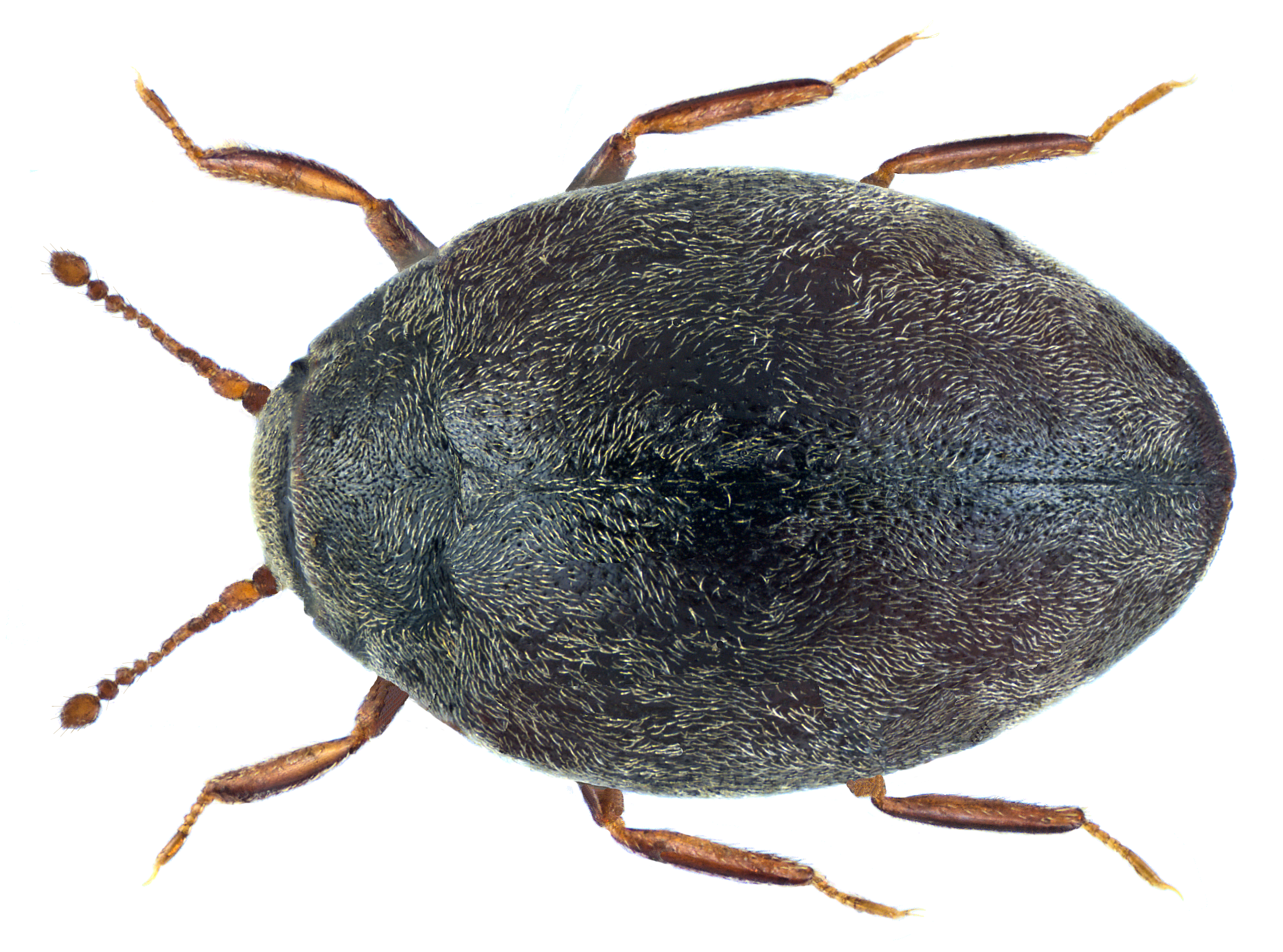 Family: Byrrhidae Size: 1,9 mm (1,7 to 1,9 mm) Origin: Europe Ecology: along the rivers on sandy and loamy surfaces, lives of algae and moss Location: England, Ventnor leg.det. P.Harwood, 21.IV.1929 Coll. Oxford Museum of Natural History Photo: U.Schmidt, 2015